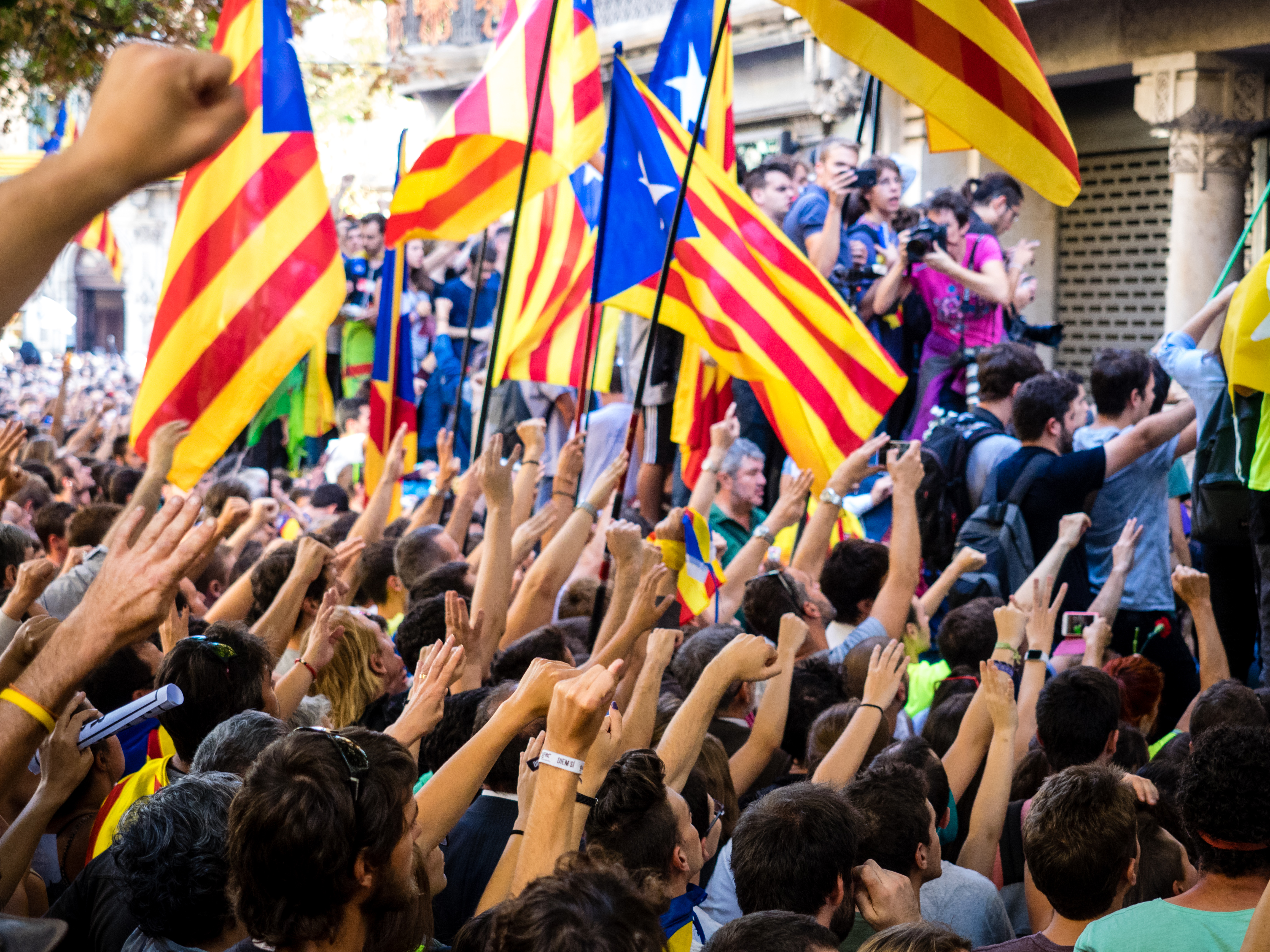 20S demonstration in Barcelona Environment in front of the headquarters of the Catalan Ministry of economy